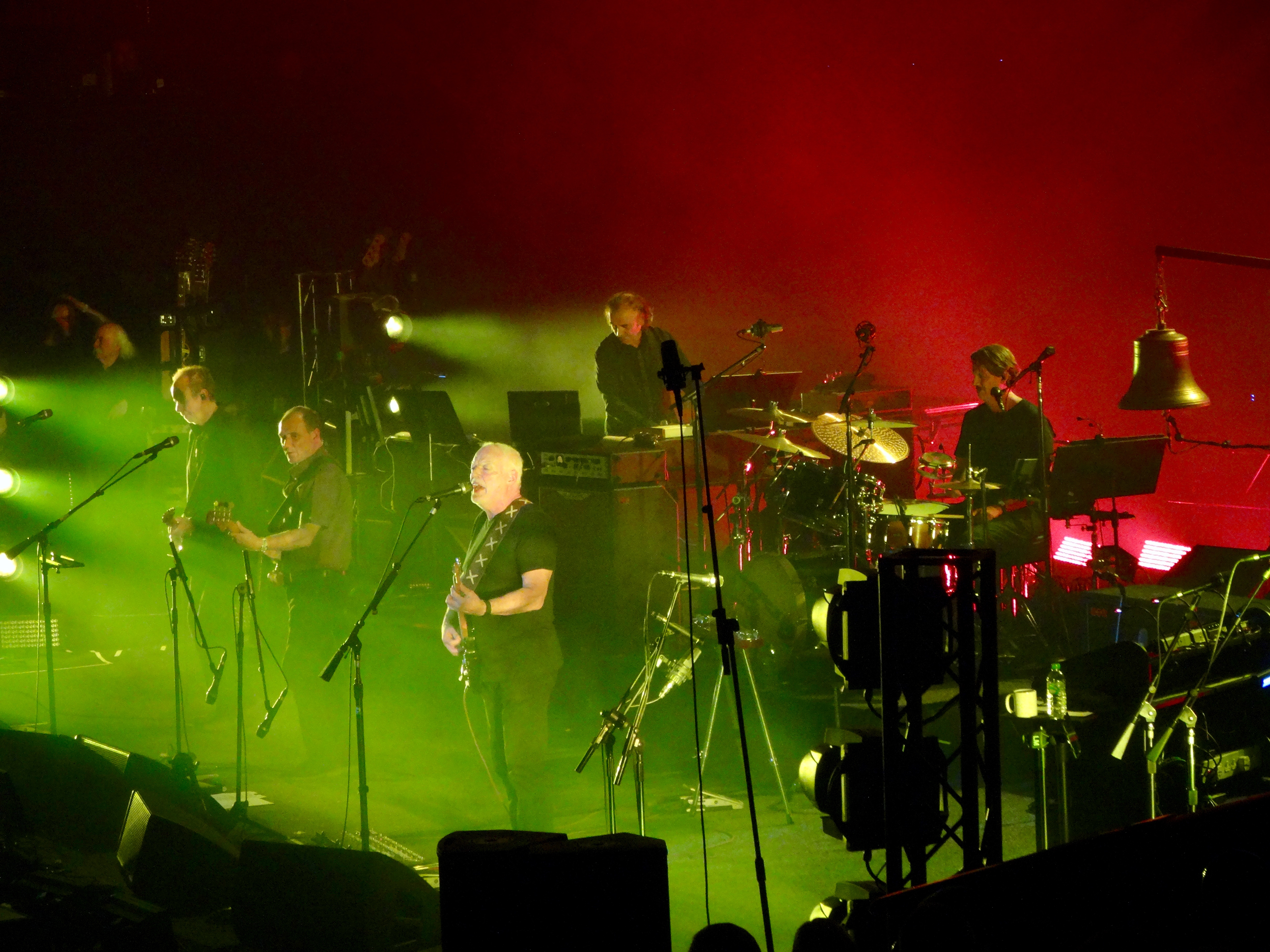 David Gilmour during Rattle That Lock Tour